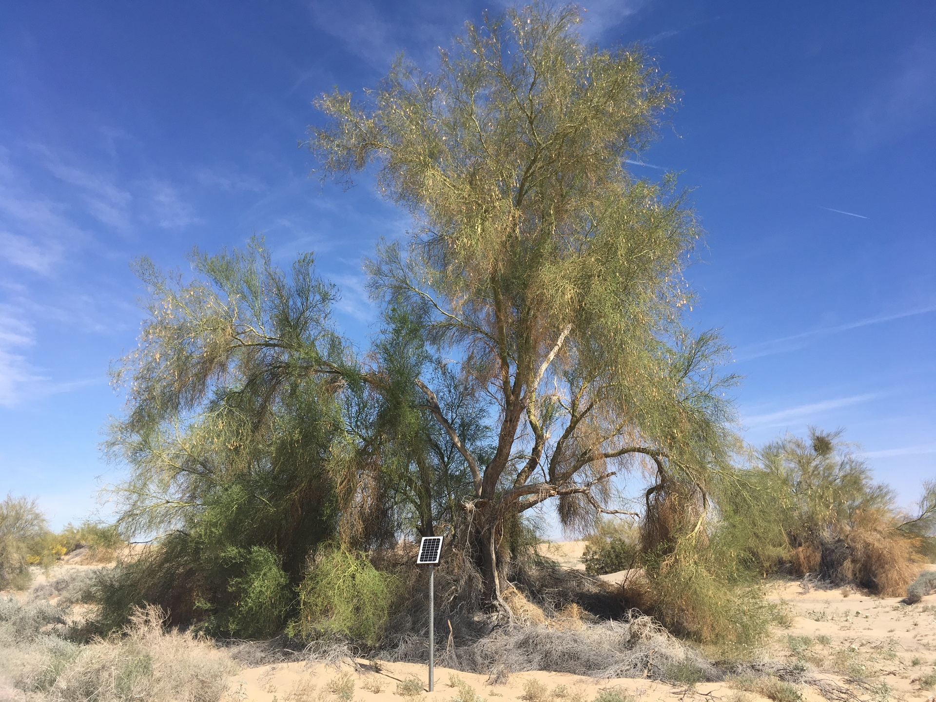 Deep in the U.S. Bureau of Land Management's Riverside East Solar Energy Zone, a blue palo verde tree towers over a University of Vermont-made solar-powered acoustic monitoring unit that records bird songs to gain insights on how wildlife are responding to utility-scale solar energy.